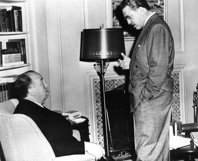 Alfred Hitchcock and David O. Selznick talks about Spellbound (1945)